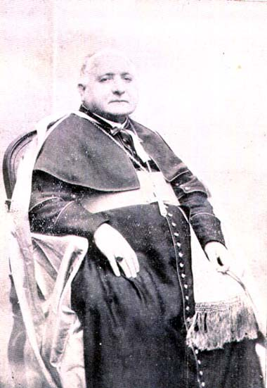 Bishop of Lecce, Salvatore Luigi Zola (1822-1898)